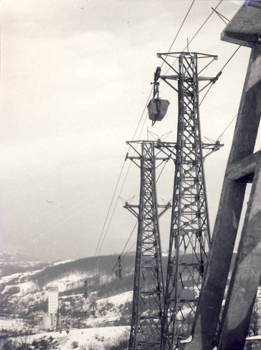 coal mine in Aninoasa